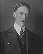 Henry Lascelles, 6th Earl of Harewood (1882-1947)